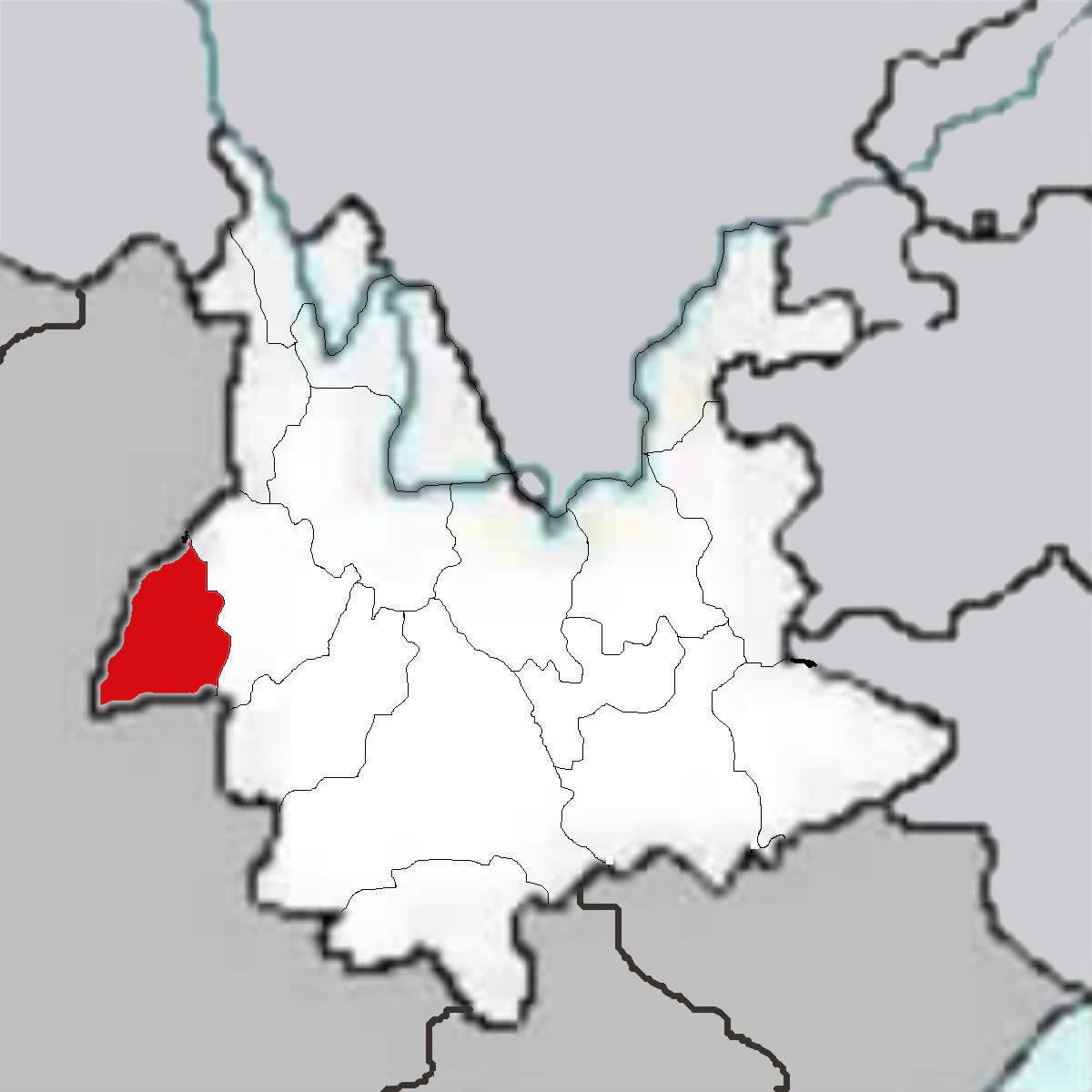 Yunan(云南) Province of China